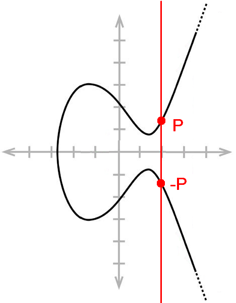 Adding P, -P on elliptic curve